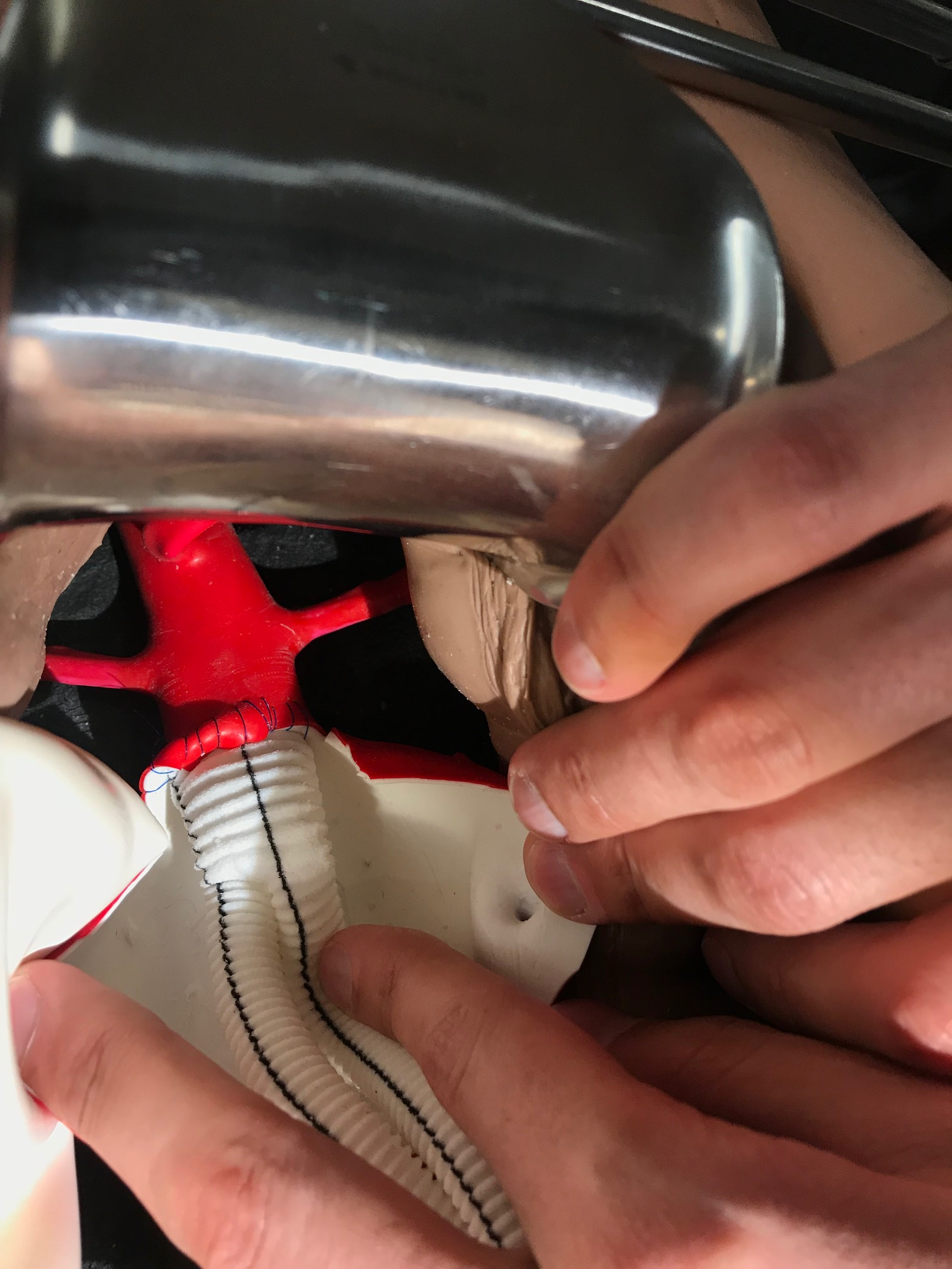 Front wall suture line of an infrarenal open aortic repair with a dacron bifurcated graft in a model